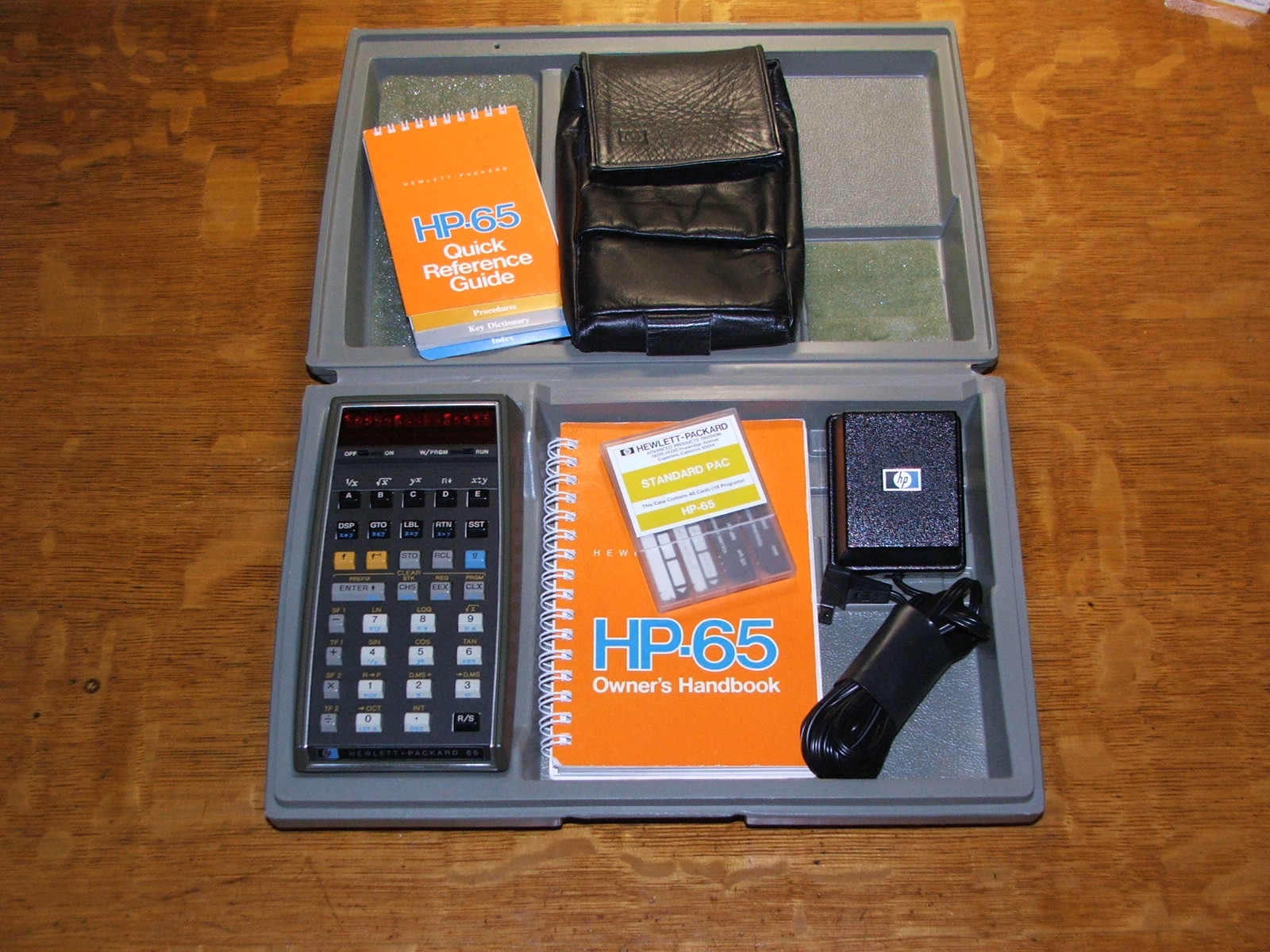 Hewlett-Packard 65 calculator in hard case with all original accessories